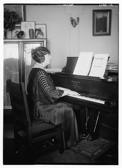 Kathryn Meisle (October 12, 1899, Philadelphia – January 17, 1970, New York City), American contralto